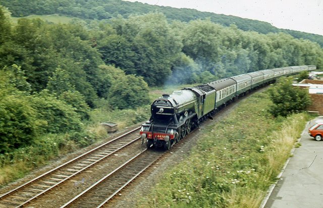 Railway line approaching Scarborough Flying Scotsman approaches Scarborough on the Scarborough Spa Express